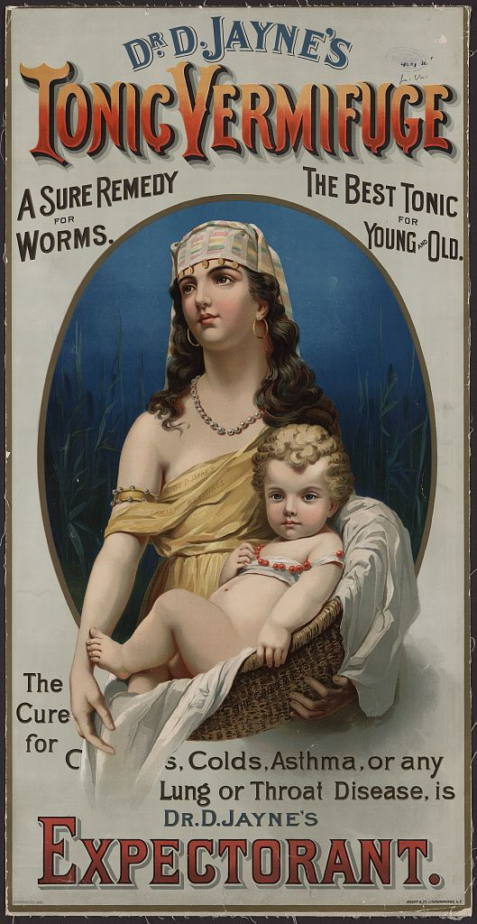 Advertisement for patent remedies sold by a Dr. D. Jayne, showing Moses held in a basket by a young woman. Color lithograph, ; 71.5 x 37 cm.